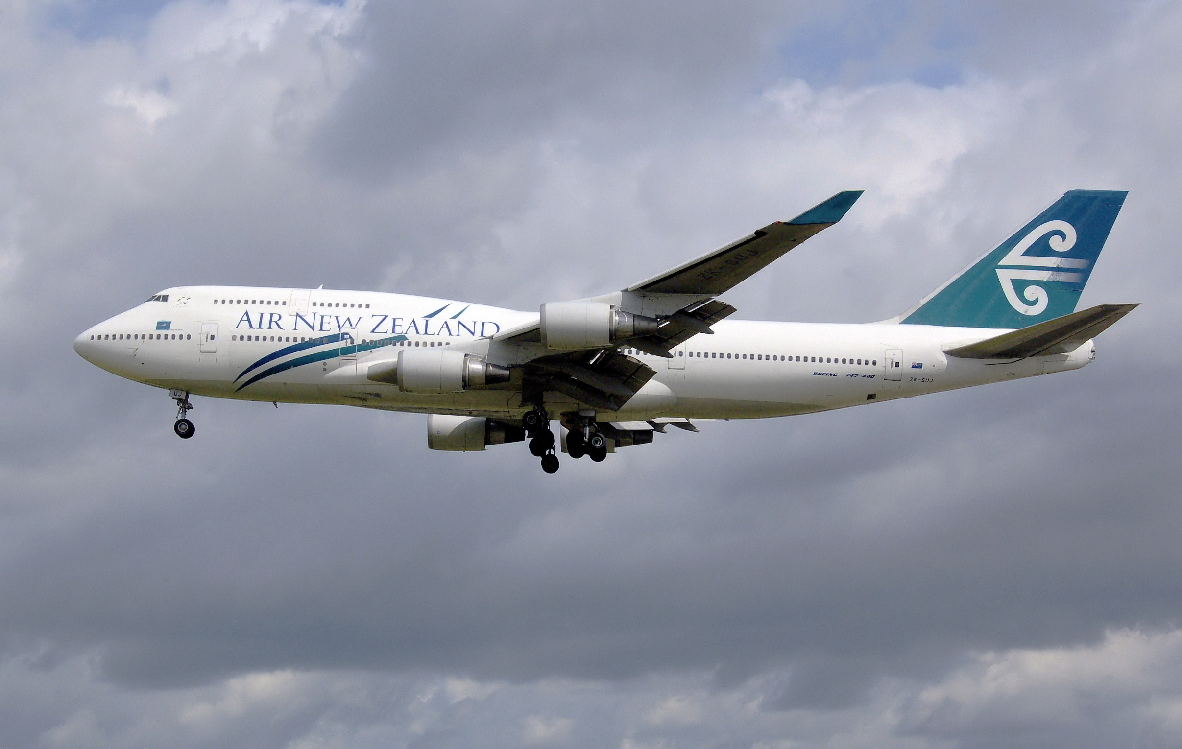 Side view of Air New Zealand Boeing 747-400 (ZK-SUJ) landing at London Heathrow Airport.